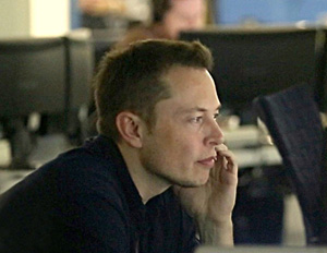 We (SpaceX) took this picture of Elon in Mission Control for the purposes of Wikipedia.